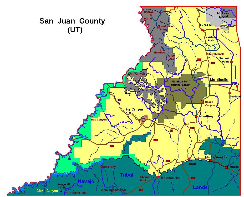 San Juan County (UT) Details, selfmade graphic by R.Blauert Dk4hb